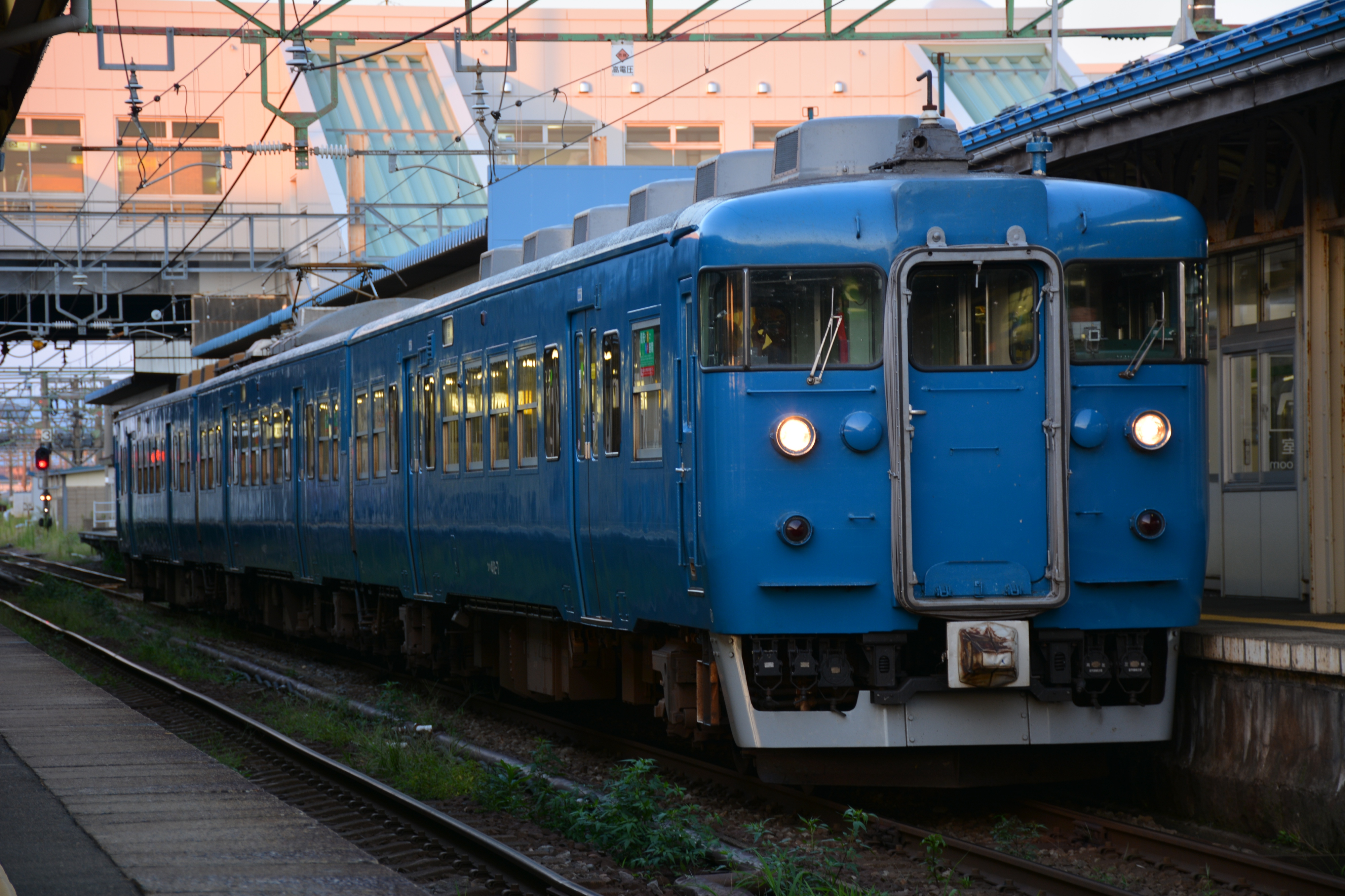 JR West 413 series EMU set B07 at Naoetsu Station